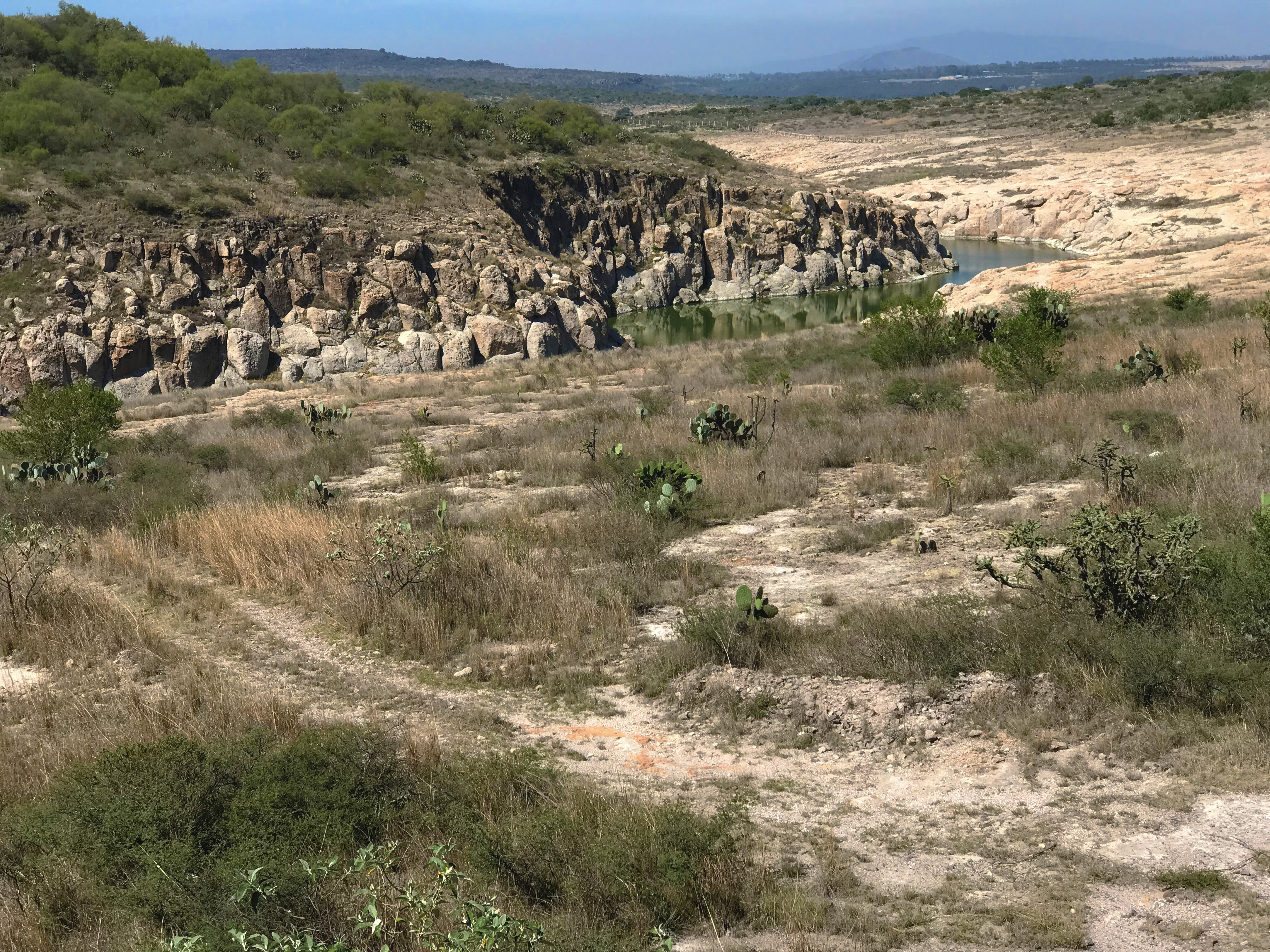 presa francisco i. madero